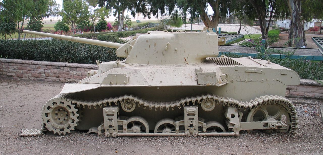 Description: M22 Locust tank in Negba, Israel. 2005. Source: Photo by me, User:Bukvoed.